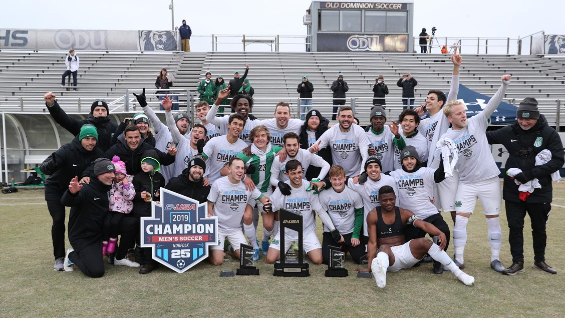 new